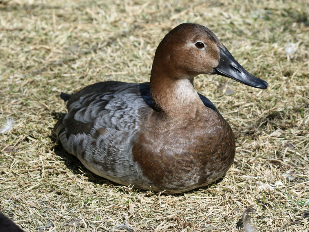 ♀ Canvasback (Aythya valisineria) at Sylvan Heights Waterfowl Park in Scotland Neck, North Carolina.